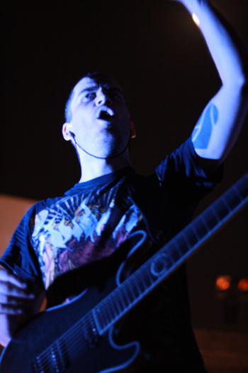 Jochem Jacobs live with Textures in India